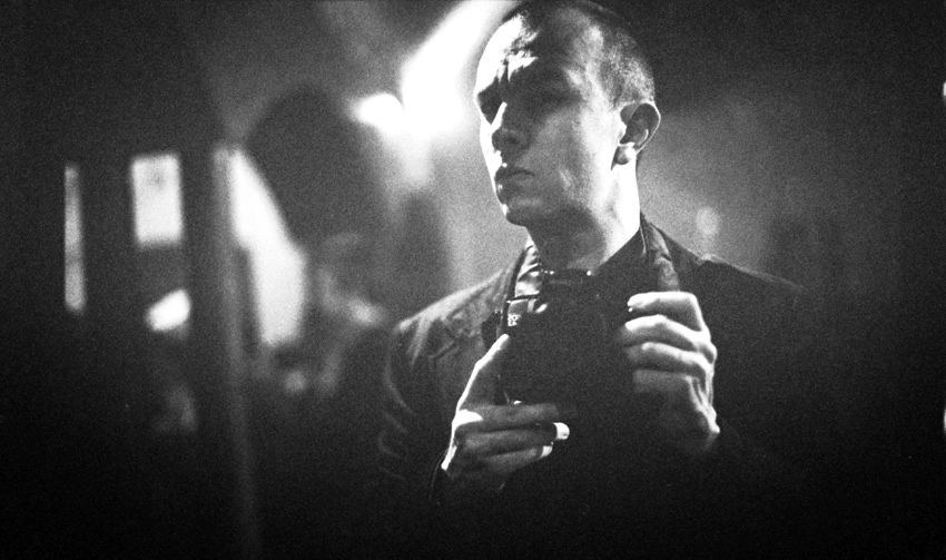 Self portrait by Edward Olive, screen actor & fine art photographer taken in Madrid, Spain 2009 using a Fuji Neopan 1600 black & white film and Canon EOS AE2 camera